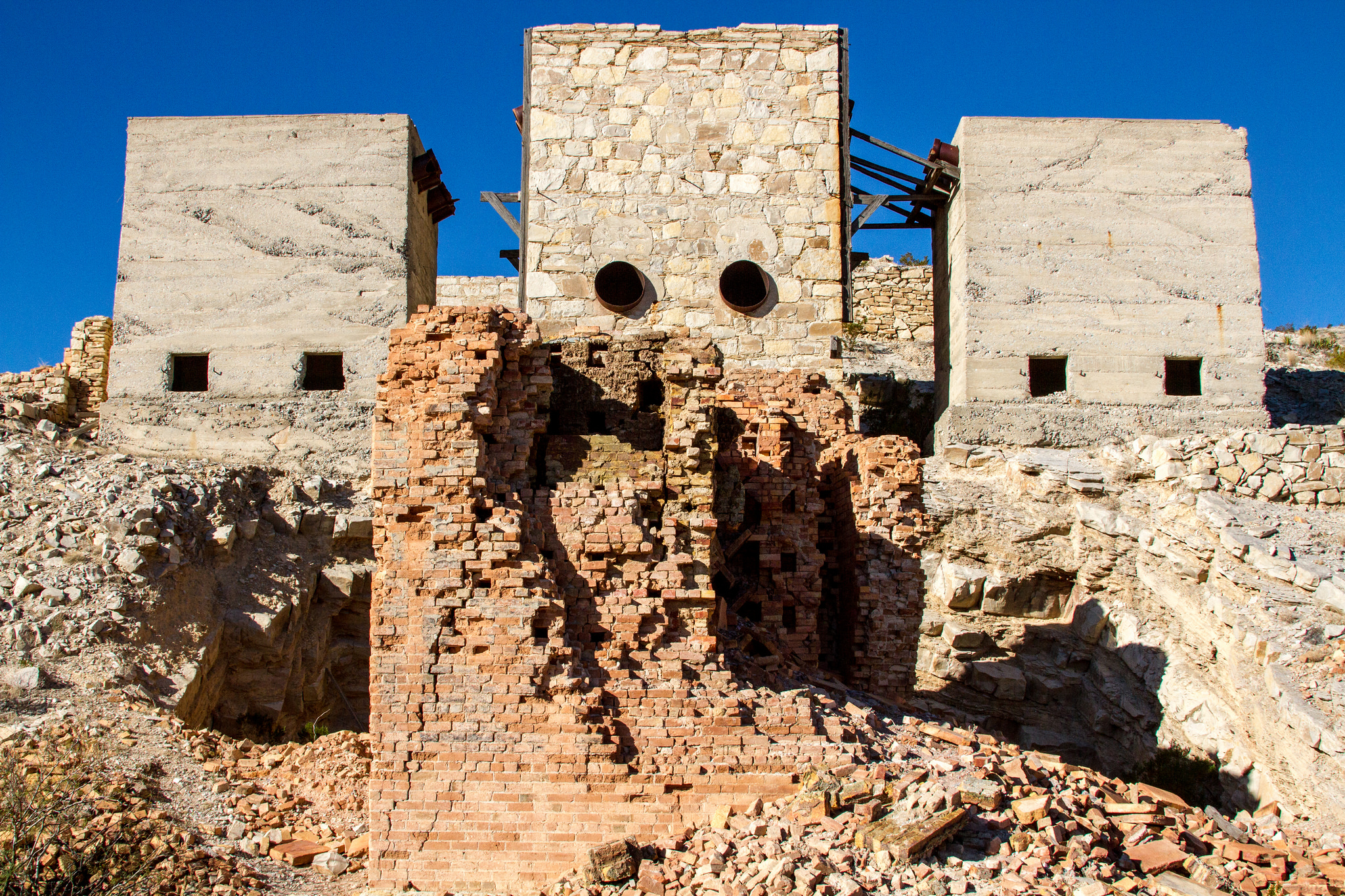 Ruins of Mariscal Mine viewed looking South. The remains of the old Scott furnace, used to extract the mercury from the cinnabar ore, can be seen in the foreground.